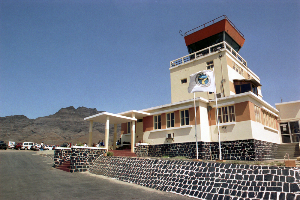 The control tower of San Pedro airport, Sao Vicente Island, Cape Verde